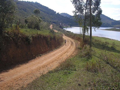 Runner in Ponte Preta Dam - Santos Dumont/MG - Brazil